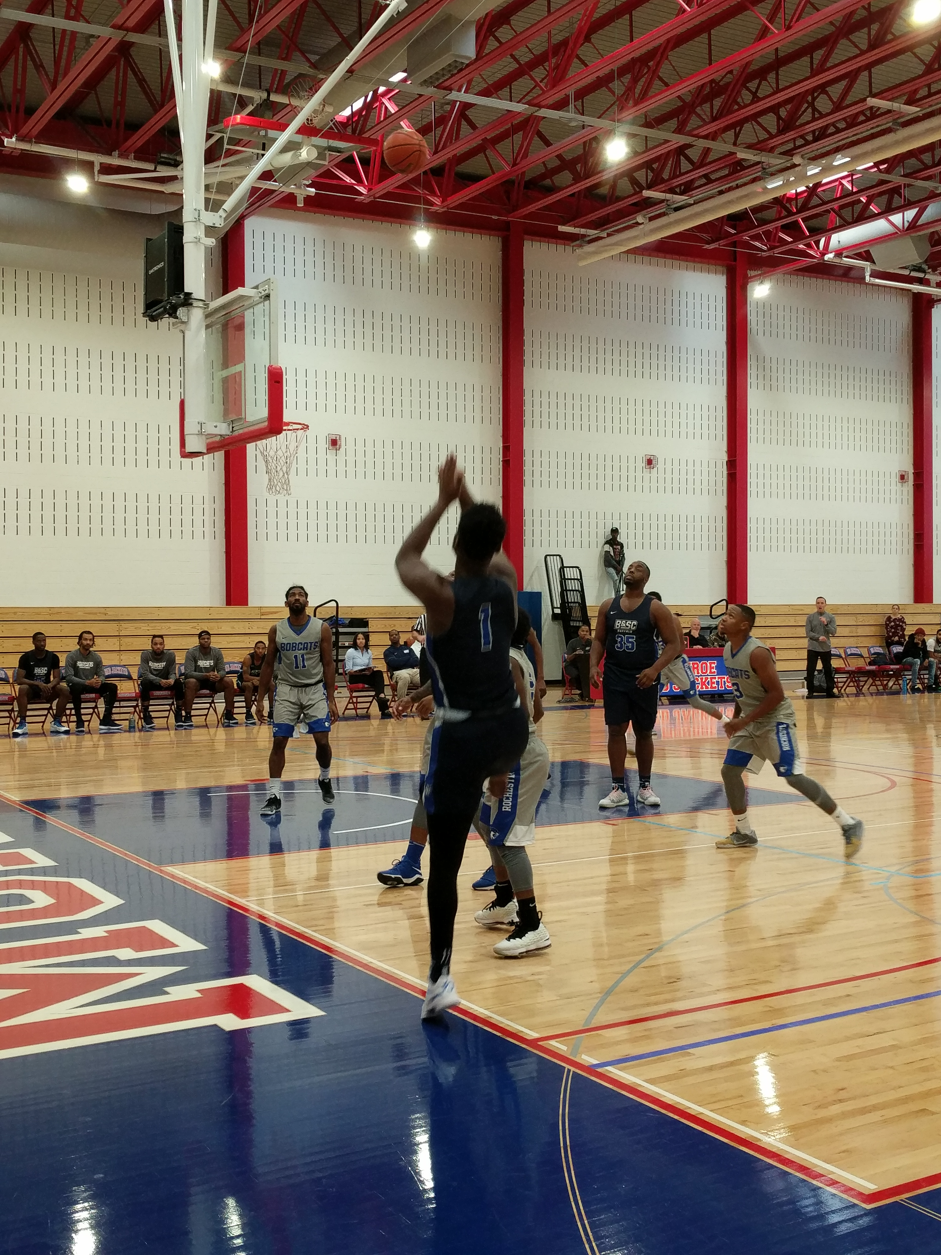 Bryant & Stratton College Buffalo plays Bryant & Stratton College Rochester at Monroe High School (Rochester)